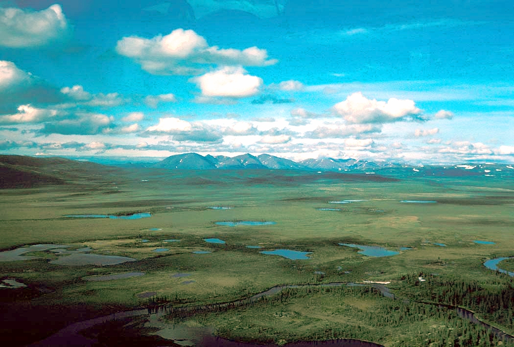 Zane Hills and Koyukuk River. Koyukuk National Wildlife Refuge